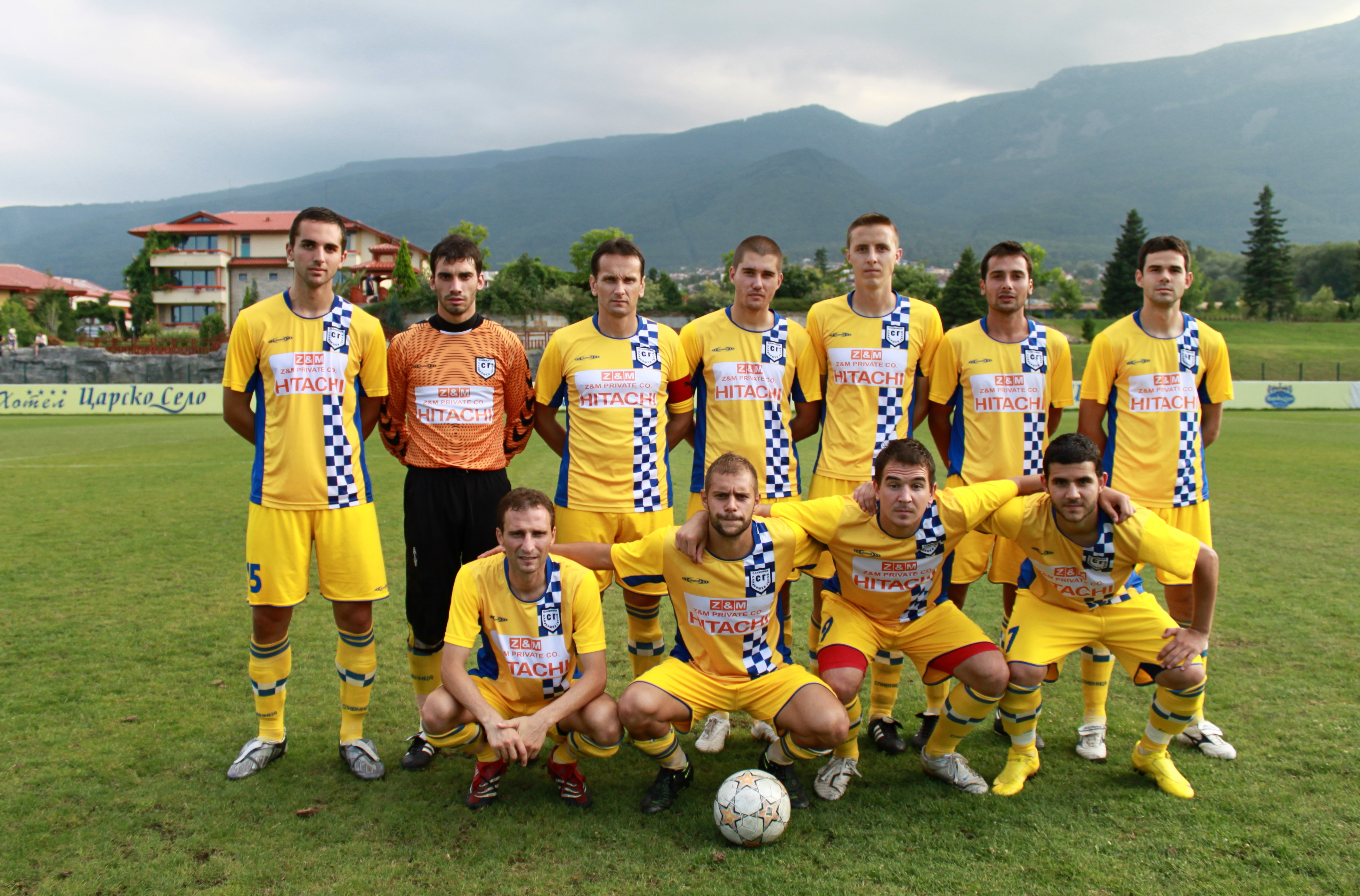 Bulgarian soccer team "Slivnishki geroi" Slivnitsa.